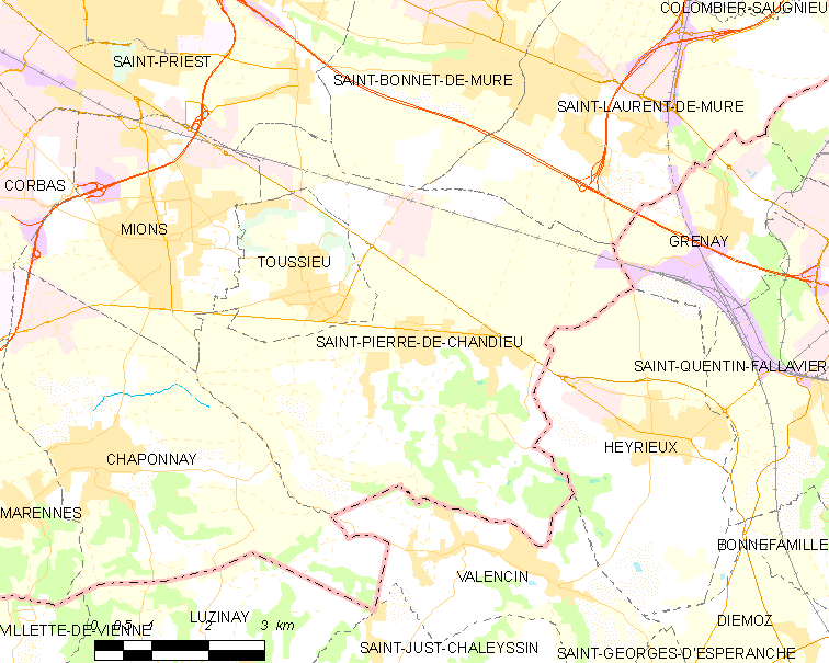 Map of French municipality